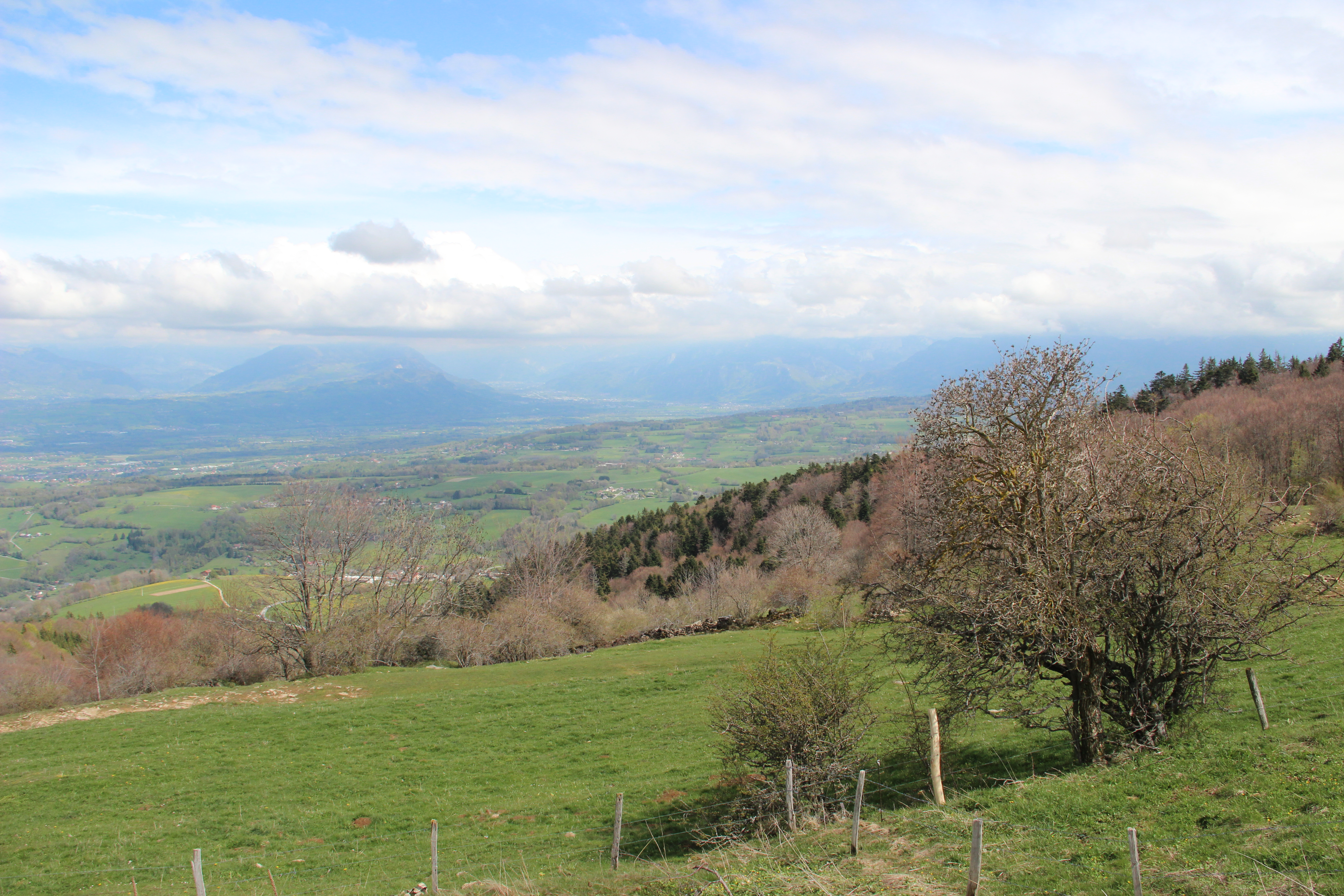 View on the Arve valley from the Salève